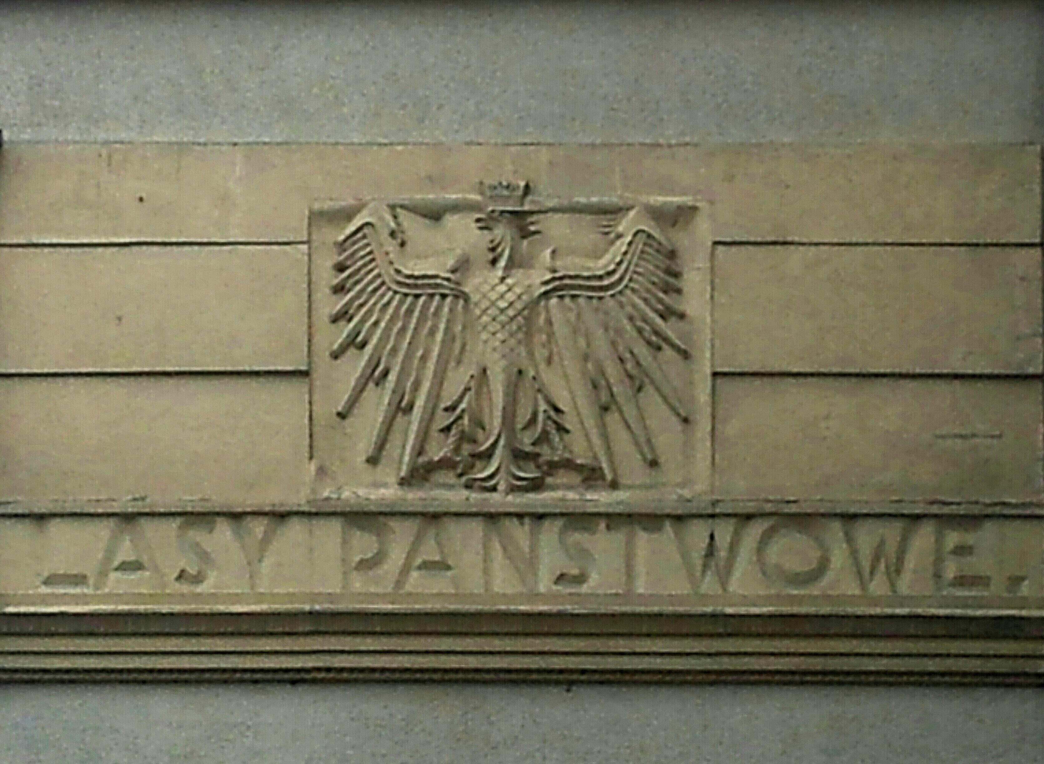 Godło państwowe na gmachu Dyrekcji Lasów Państwowych w Radomiu